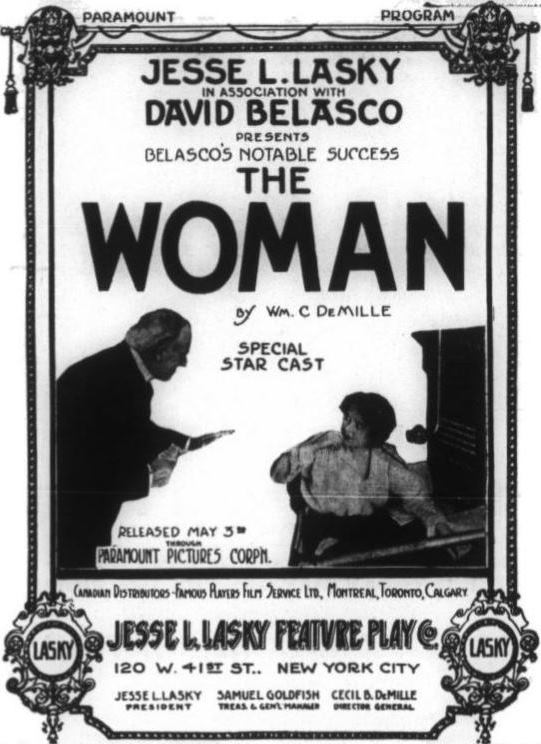 Advertisement for the American drama film The Woman (1915) with Theodore Roberts and Lois Meredith, on page 20 of the April 30, 1915 Variety.